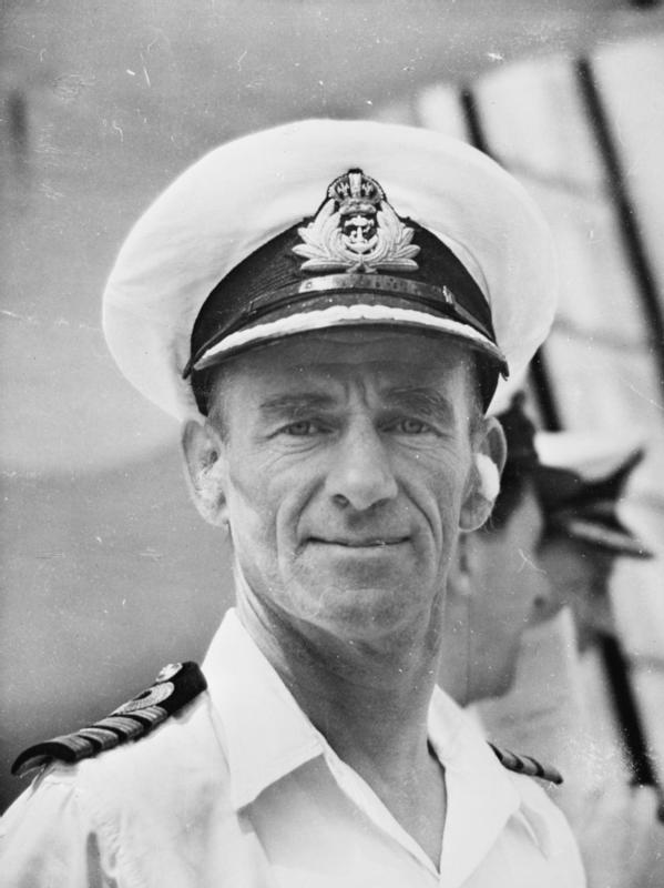 Captain M Denny, Cb, Cbe, Rn, of HMS Victorious. March 1945.